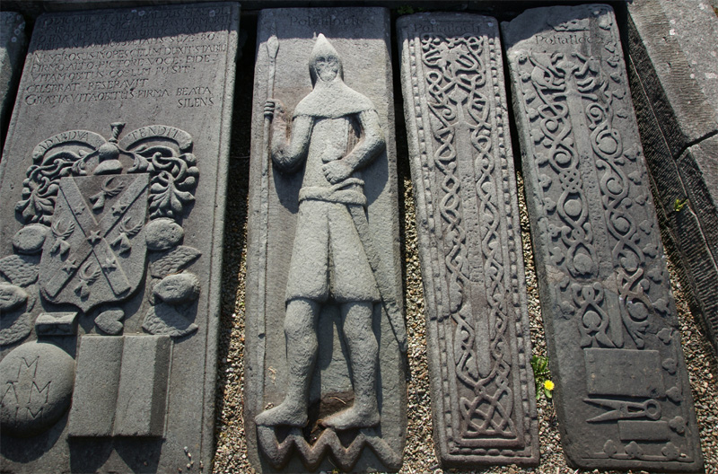 Kilmartin Sculptured Stones, Kilmartin Glen, Scotland - grave slabs from Poltalloch Estate (in churchyard)